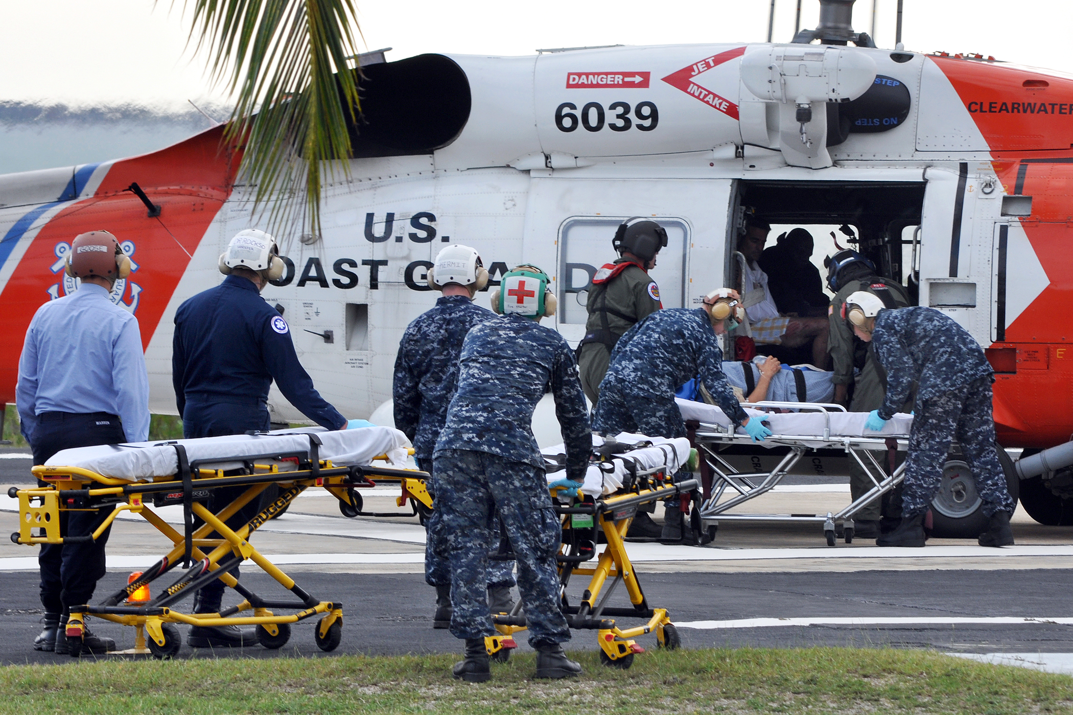 Hospital personnel at U.S. Naval Hospital Guantanamo Bay, Cuba receive five American victims of the 7.0 magnitude earthquake in Haiti from a U.S. Coast Guard air ambulance, Jan. 13, 2010. The victims were stabilized and treated in the Guantanamo hospital and were transferred to Jackson Memorial Hospital in Miami, Fla. [1]